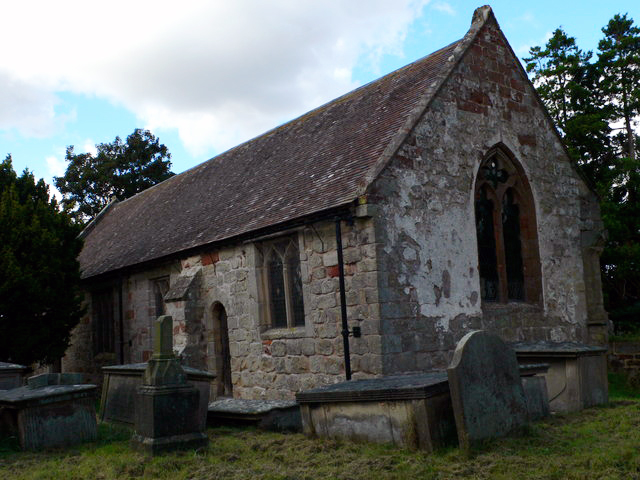 St Martin's Church, Preston Gubbals, near to Preston Gubbals, Shropshire, Great Britain. This building was originally the chancel of the mediaeval church; when a large new church was added to it in 1866, it became its south aisle; then the new church was demolished and the original building was vested in the Trust in 1975. A 17th century font and an outstanding 14th century effigial slab have survived all these vicissitudes. The remains of the demolished building can be seen alongside.